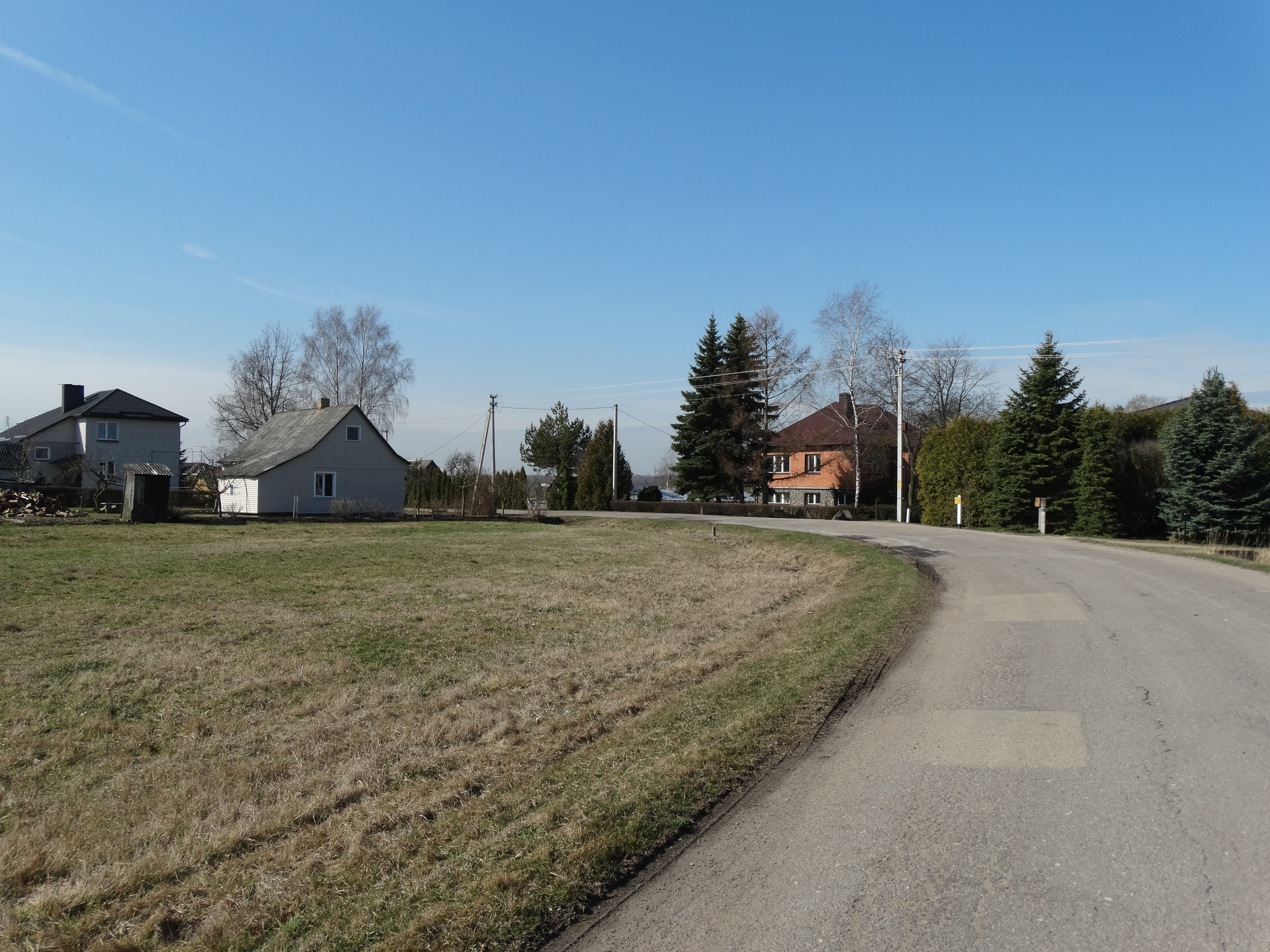 Juodoniai, Kaunas District. Lithuania